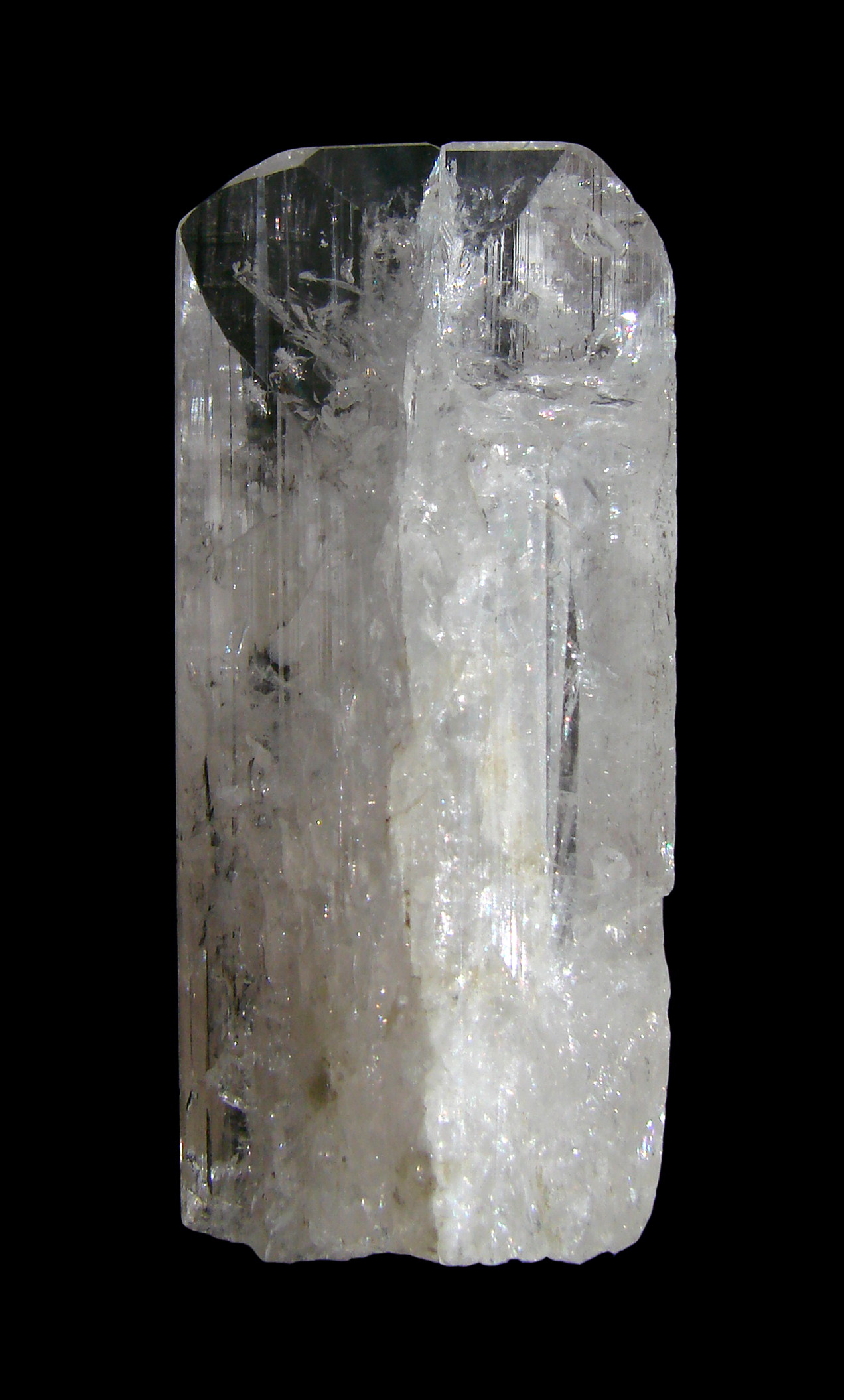 Danburite from Mexico, height 4,5 cm.